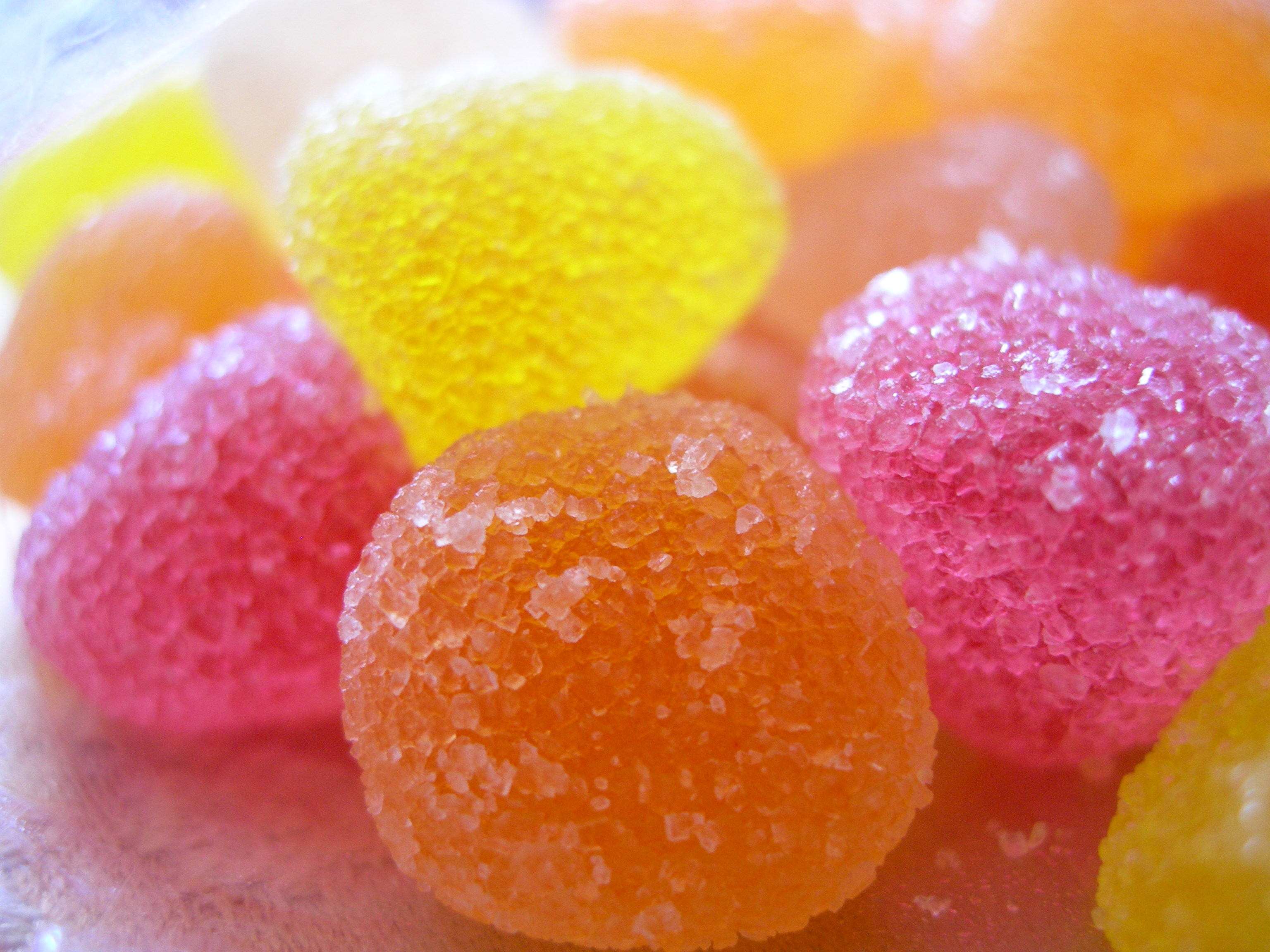 These delectable jellies were a present to me by one of my colleagues... She gave me a mini paddington bear suitcase from her London trip but unknown to her the mini suitcase contained a packetful of these colorful mini fruit jellies much to my delight... Loved the mini suitcase and loved these as well...